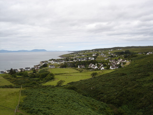 View towards Strath, Gairloch in north-west Scotland